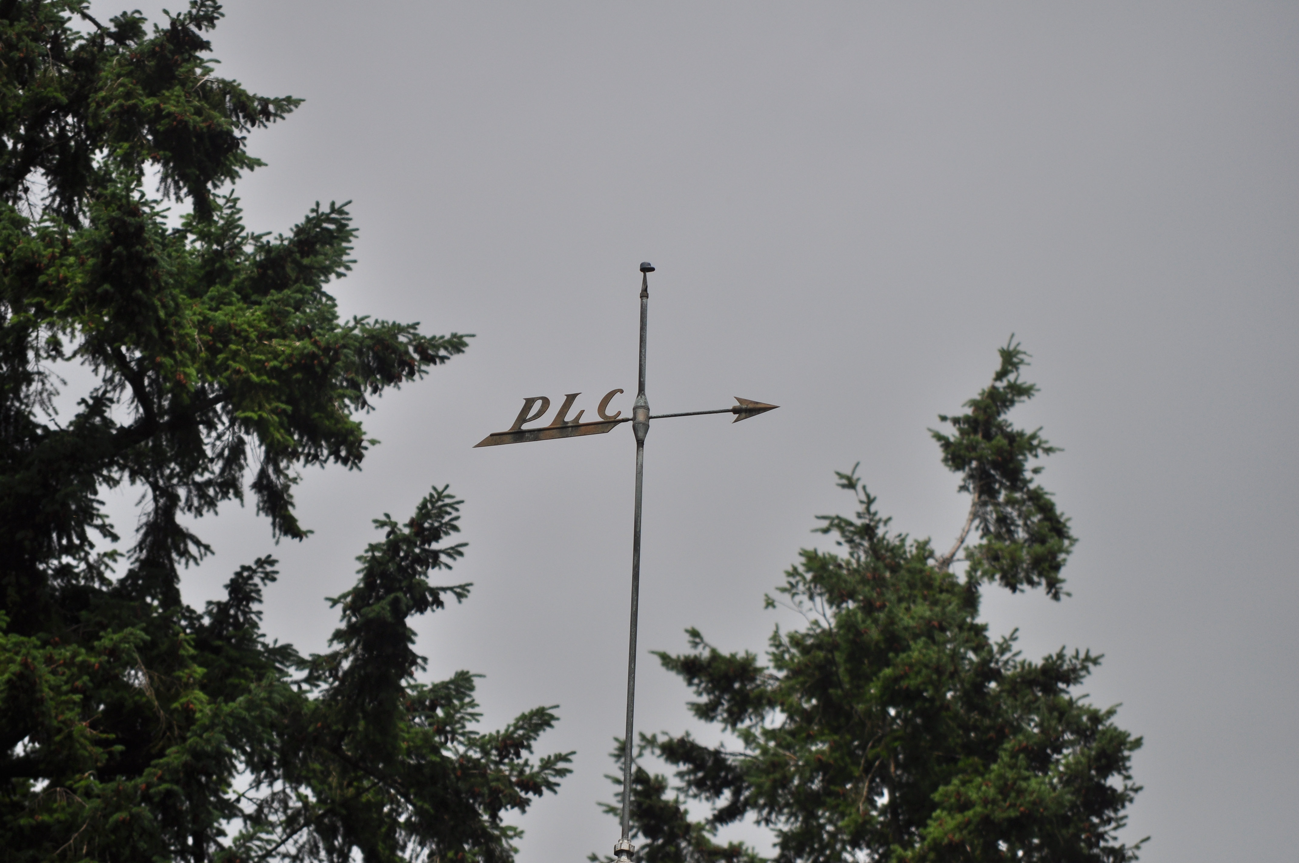 Weather vane atop Xavier Hall, Pacific Lutheran University, Parkland, Washington. "PLC" on the weather vane presumably dates back to when the university was Pacific Lutheran College.